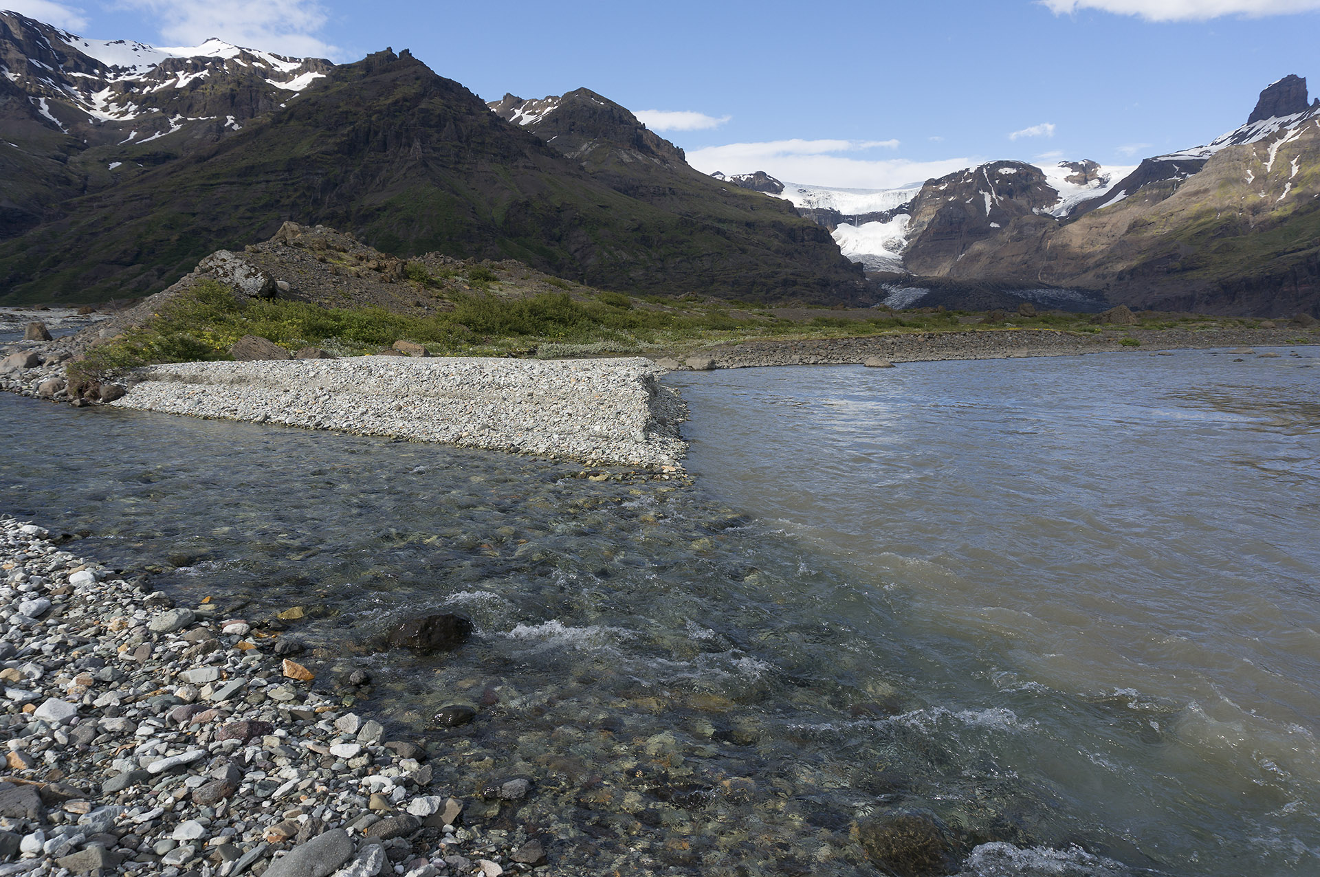 Eastern Region, Iceland